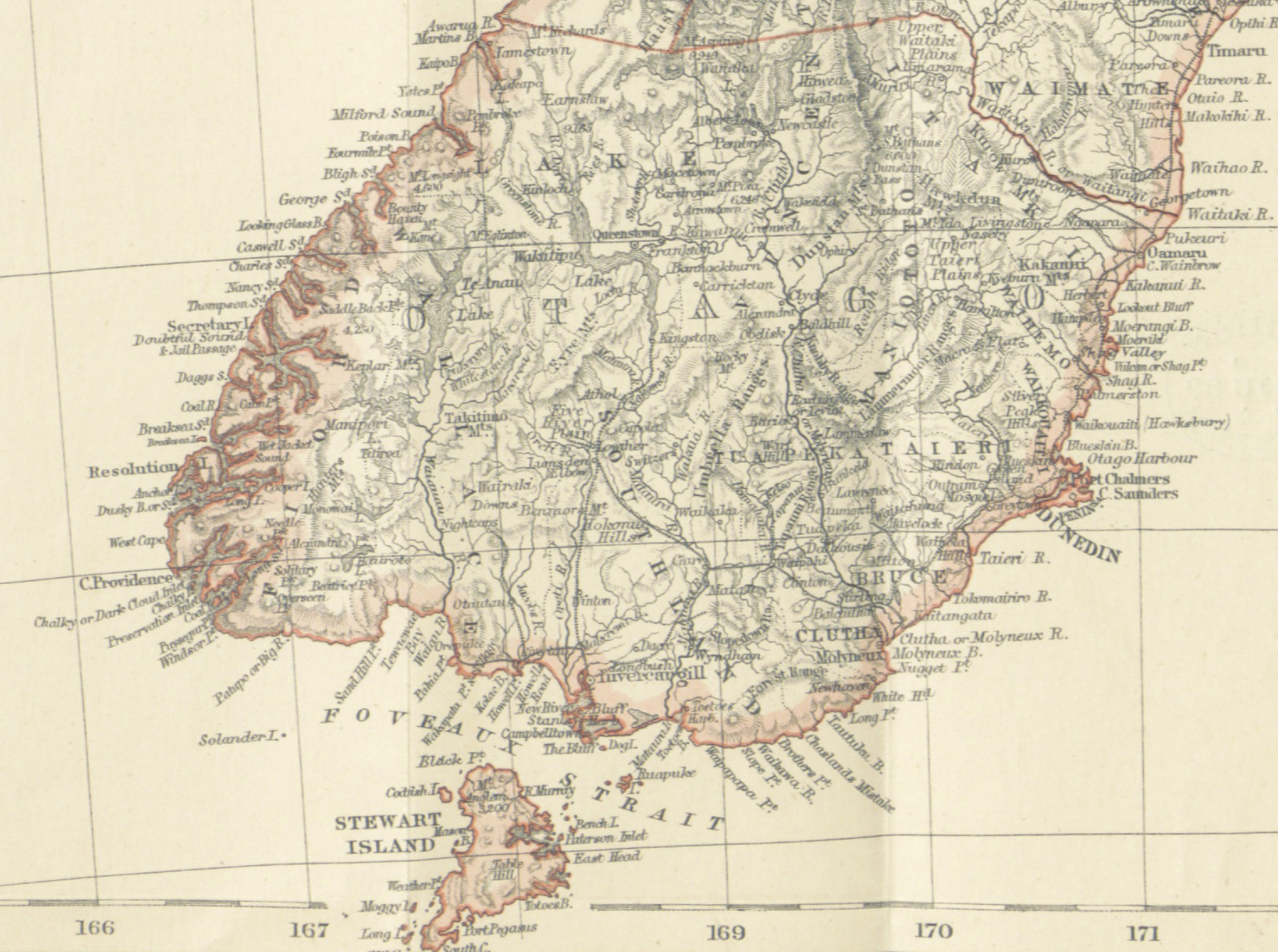 Title: "The Colony of New Zealand. Its history, vicissitudes and progress" Author: GISBORNE, William. Shelfmark: "British Library HMNTS 10492.eee.9." Page: 6 Place of Publishing: London Date of Publishing: 1888 Publisher: Petherick & Co. Issuance: monographic Identifier: 001432129